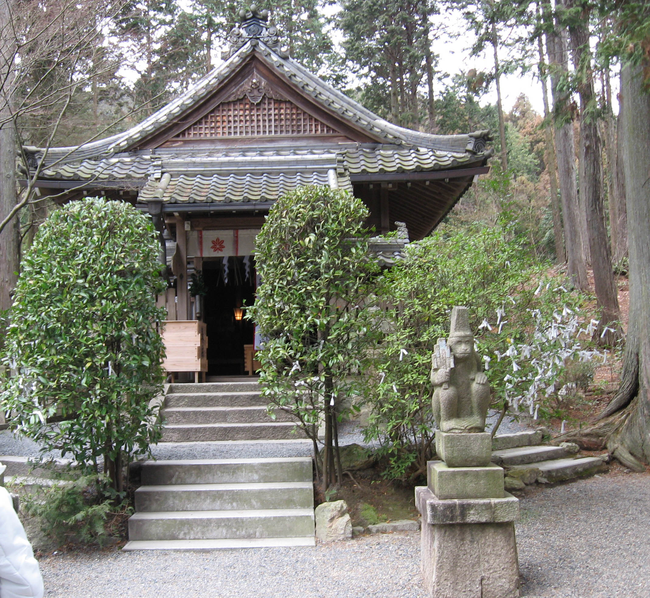 precinct of Sarumaru shrine